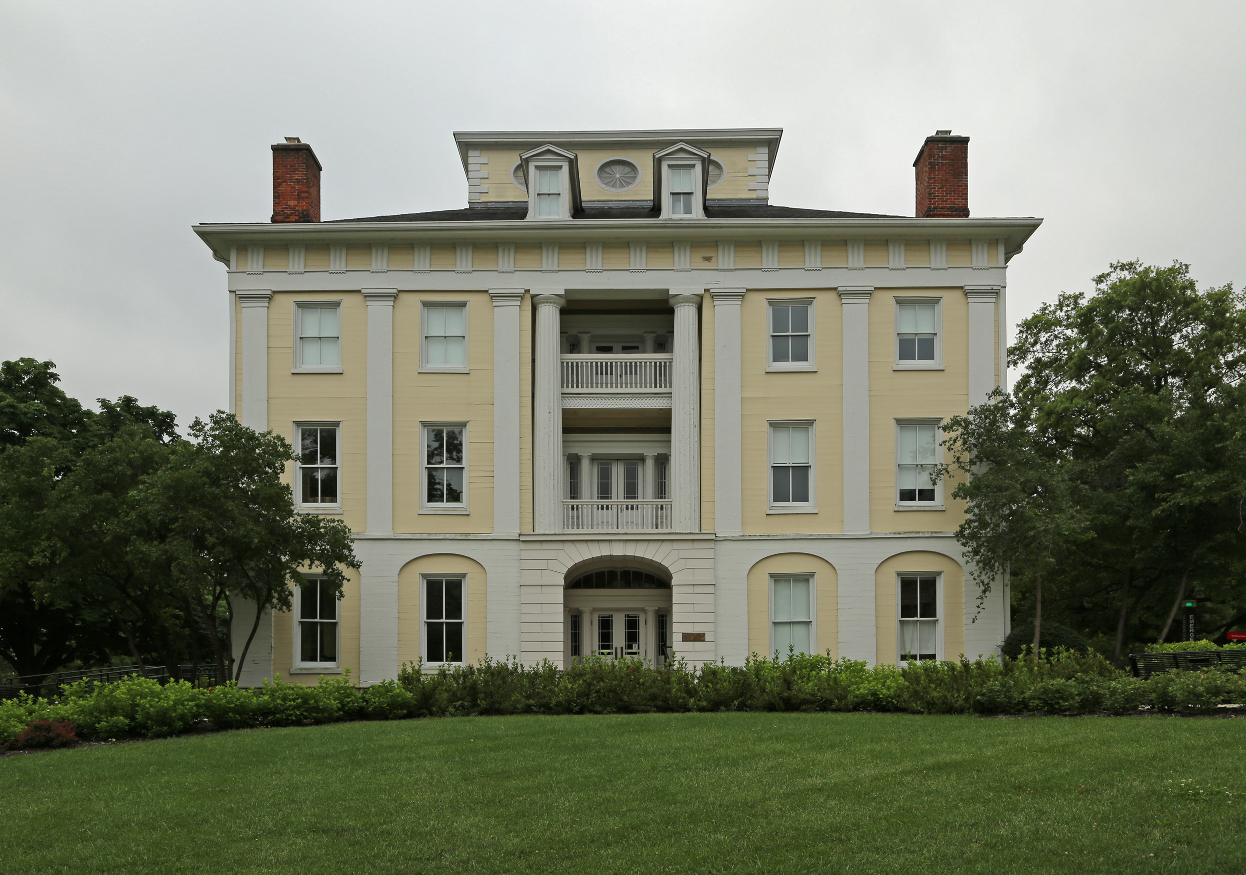 Ohio Wesleyan University's Elliott Hall, built in 1833 in the Greek Revival style. The structure, which first functioned as a resort hotel, is listed on the National Register of Historic Places.